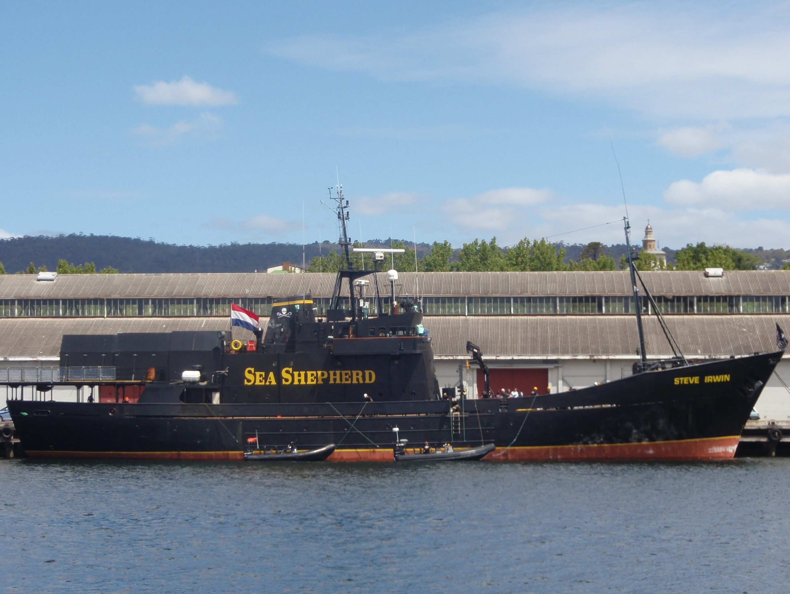 The Sea Shepherd flagship Steve Irwin docked in Hobart, Australia. It had arrived in port that morning for refuelling and supplies. Note that it flies both its own version of the Jolly Roger and the Dutch flag. Alongside are two zodiac tender boats.